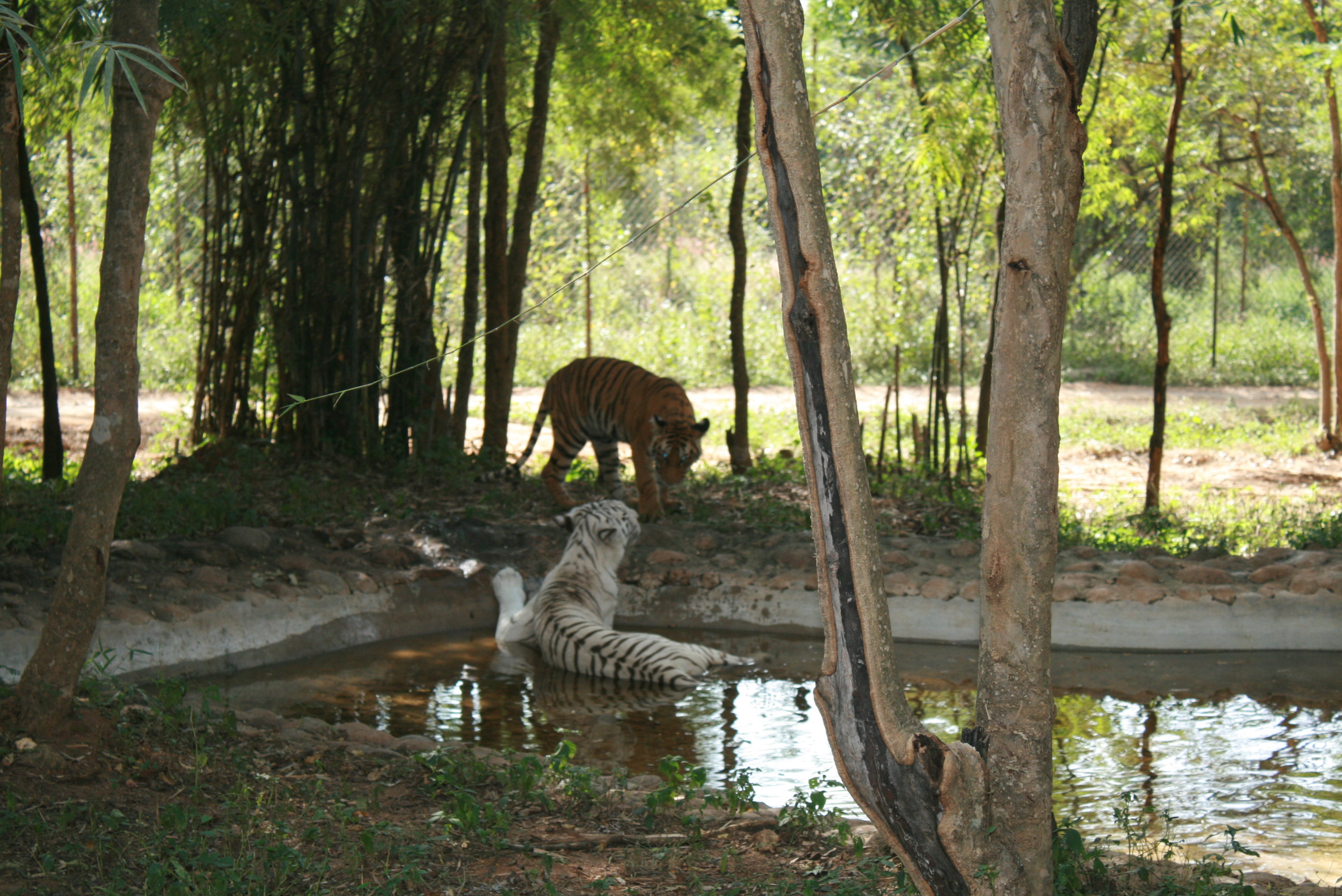 White Tiger